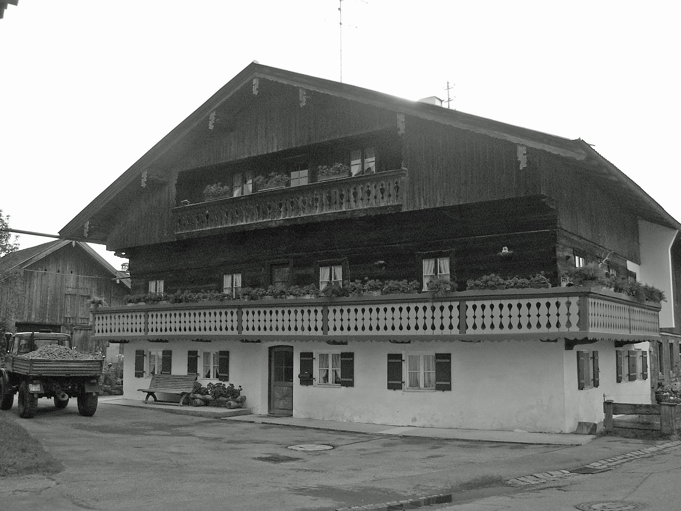 Typisches Bauernhaus in Greiling